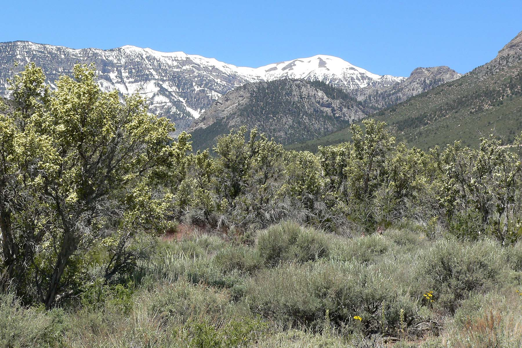 View of Mount Charleston — from Kyle Canyon, Spring Mountains, west of Las Vegas, Nevada